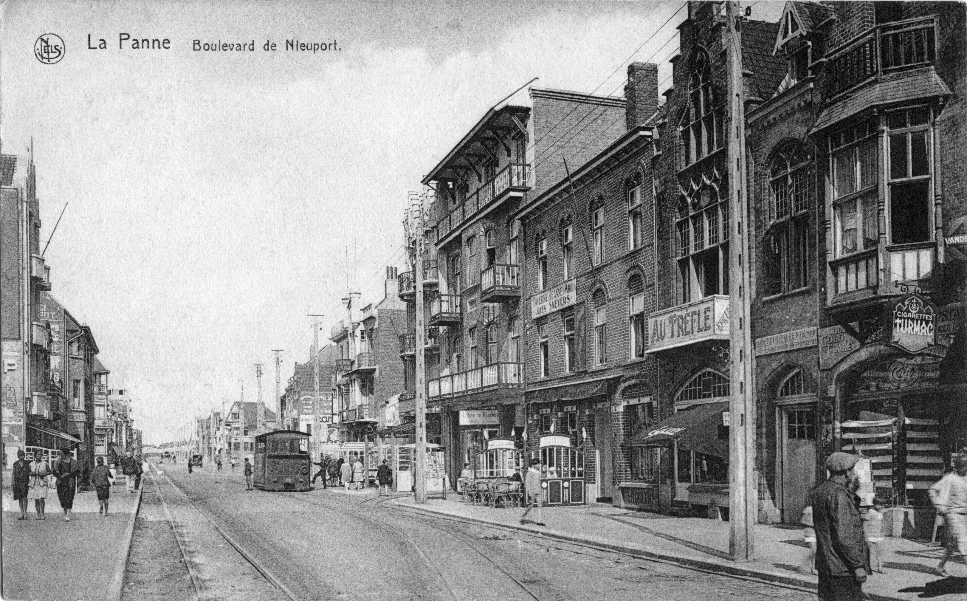 A view of the main street "Boulevart de Nieuwport" in De Panne in the early twenties. The poststamp is not readable. The tracks where laid in 1914 and the electrification was in 1928. It has to be between these dates.